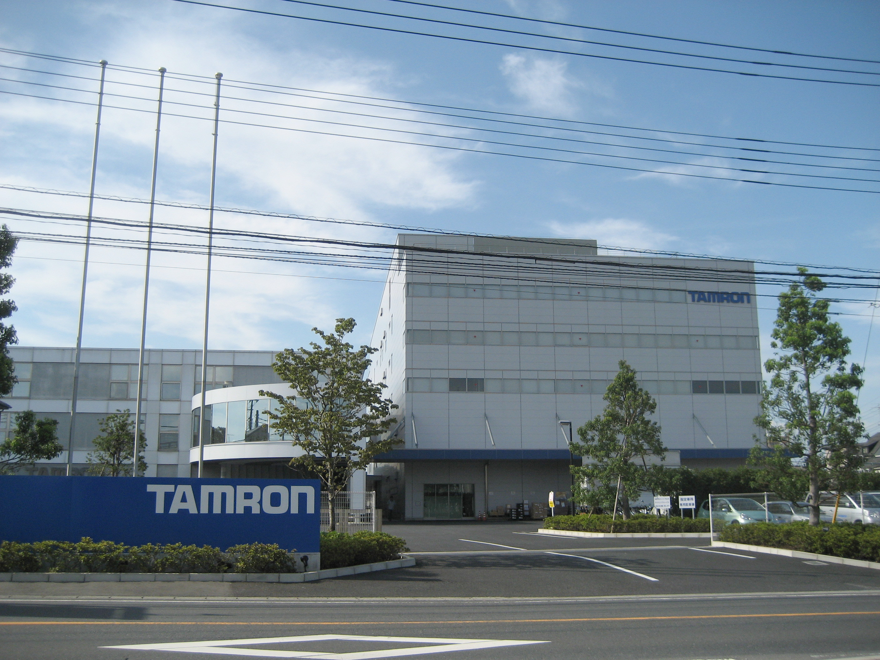 Tamron head office in 1385 Hasunuma, Minuma-ku, Saitama